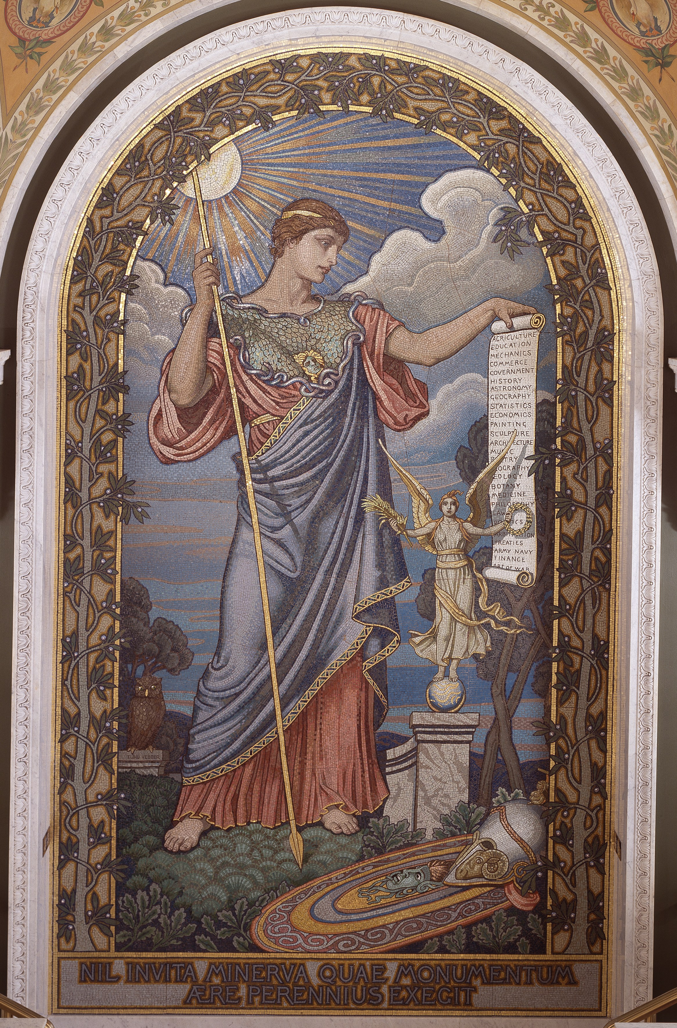 Second Floor, East Corridor. Mosaic of Minerva by Elihu Vedder within central arched panel leading to the Visitor's Gallery. Library of Congress Thomas Jefferson Building, Washington, D.C. Exhibit caption: "Pictured on this mosaic in the arched panel is the Roman Goddess Minerva--guardian of civilization. She is portrayed as the Minerva of Peace, but according to the artist who created her, Elihu Vedder (American painter, 1836–1923), the peace and prosperity that she enjoys was attained only through warfare. A little statue of Nike, a representation of Victory, similar to those erected by ancient Greeks to commemorate their success in battle, stands next to Minerva. The figure is a winged female standing on a globe and holding out a laurel wreath (victory) and palm branch (peace) to the victors. Shield and Helmet: Although Minerva's shield and helmet have been laid upon the ground, the goddess still holds a long, two-headed spear, showing that she never relaxes her vigilance against the enemies of the country that she protects. Scroll: Her attention is directed to an unfolded scroll that she holds in her left hand. On this is written a list of various fields of learning, such as Architecture, Law, Statistics, Sociology, Botany, Biography, Mechanics, Philosophy, Zoology, etc. Minerva is therefore also the Goddess of Learning, an activity that can thrive in a peaceful society. Owl: On Minerva's right is an owl, symbolizing wisdom, perched upon the post of a low parapet. Inscription: Beneath the mosaic is an inscription from Horace's Ars Poetica: Nil invita Minerva, quae monumentum aere perennius exegit, and translated as, Not unwilling, Minerva raises a monument more lasting than bronze." (Source: Great Hall exhibit, 2008)